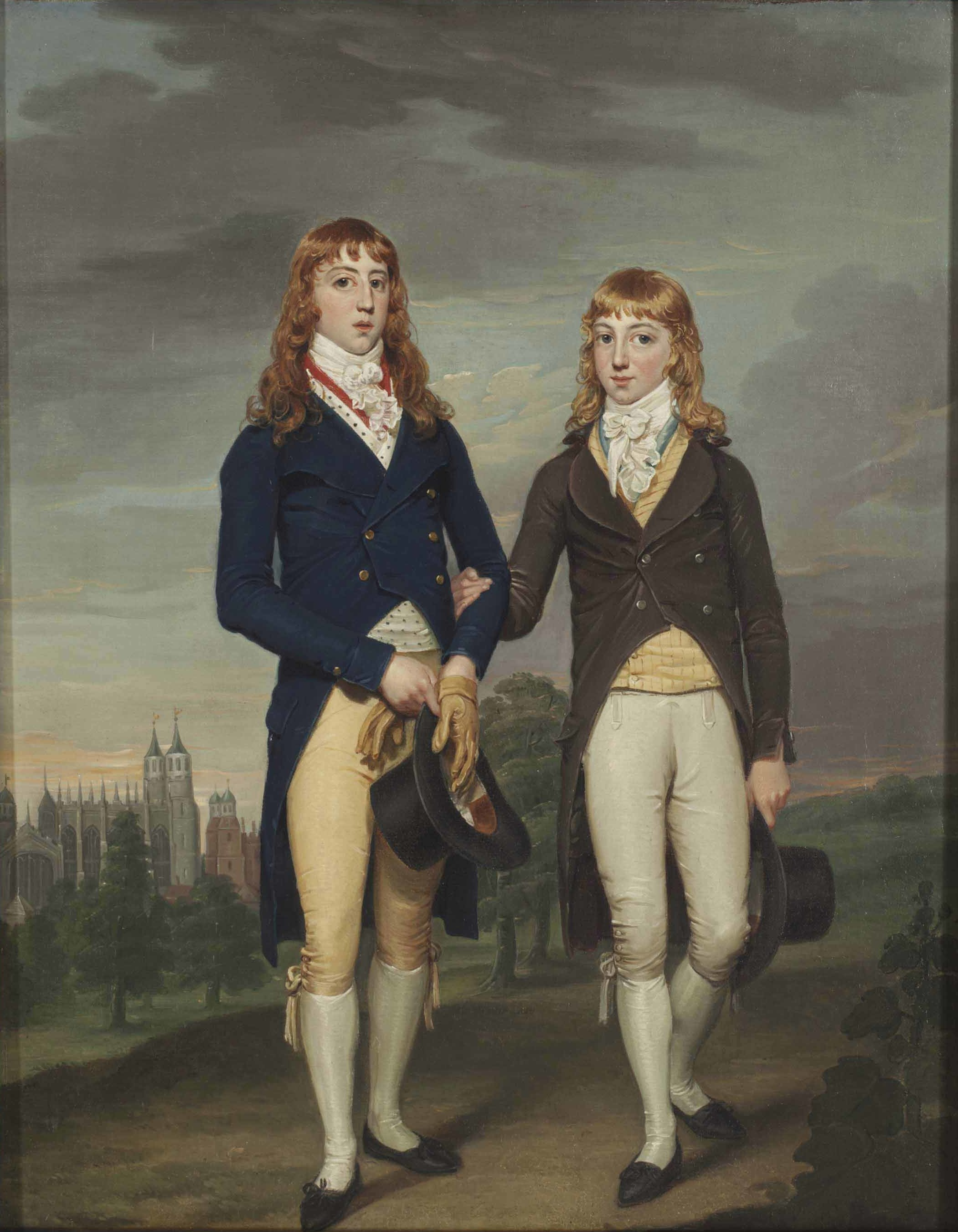 Portrait of two Eton Schoolboys, in ad Montem dress, Eton Chapel beyond oil on canvas 58.4 x 45.1 cm